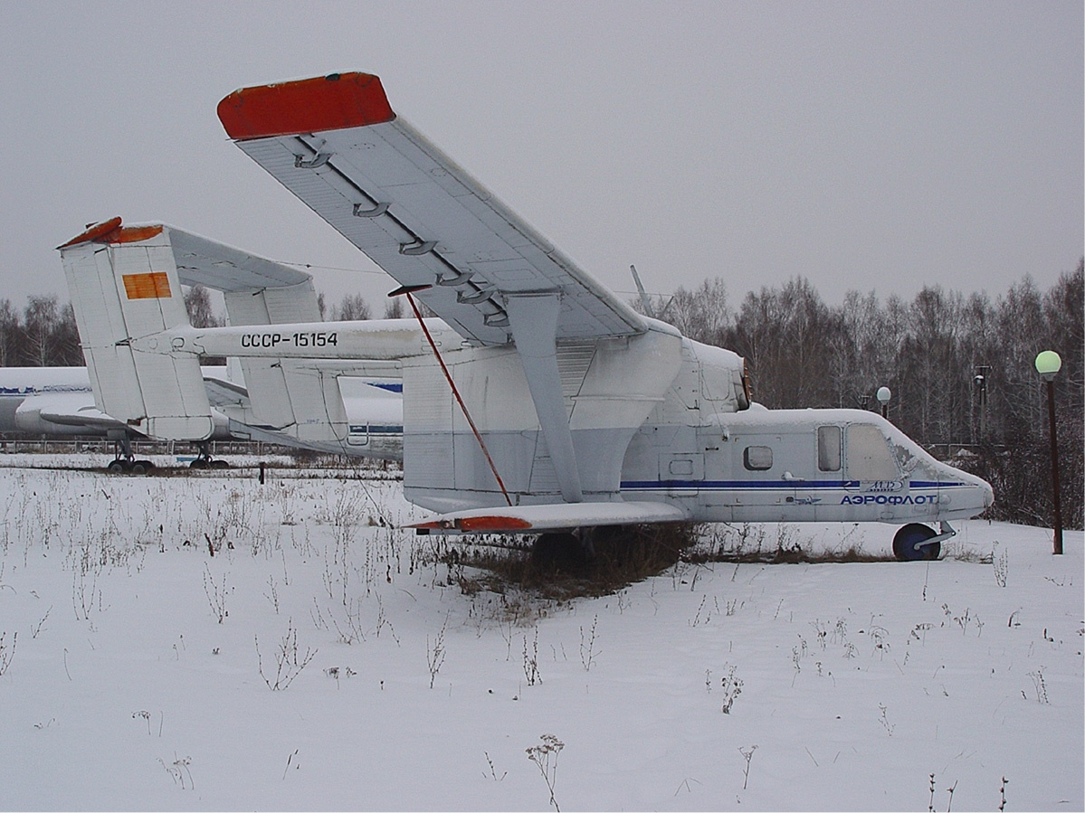 A PZL-Mielec M-15 Belphegor of Aeroflot